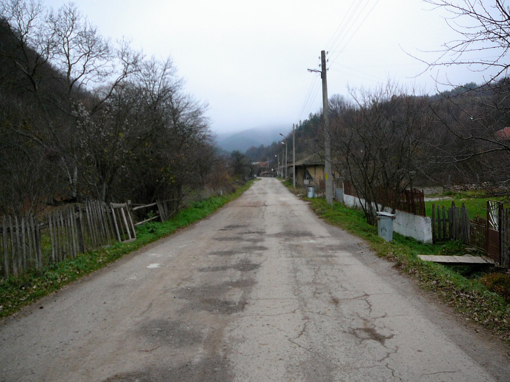 Lyava reka village in central Balkan mountains Bulgaria